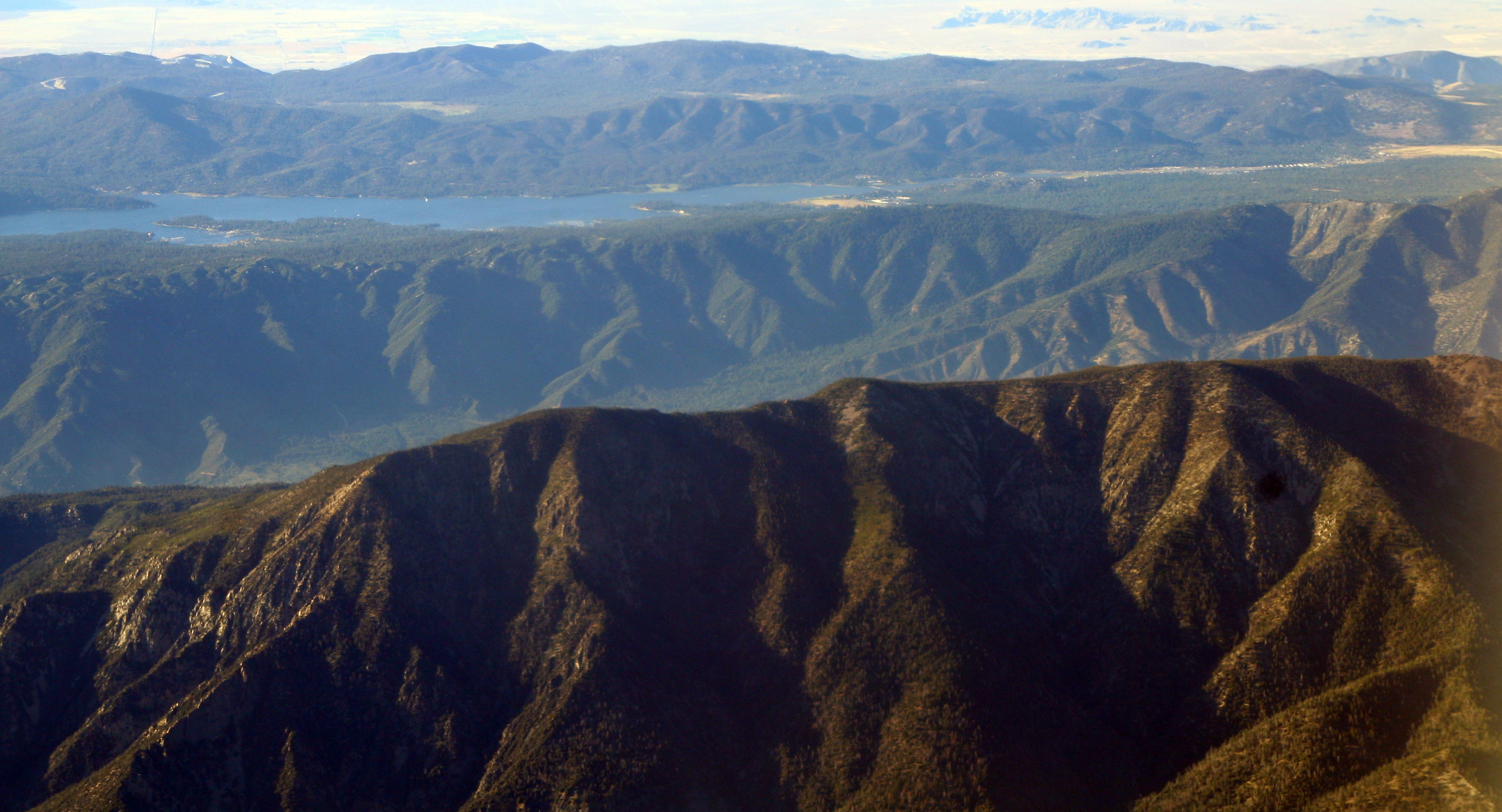 In the foreground, Mt. San Gorgonio. Behind, Big Bear Lake.